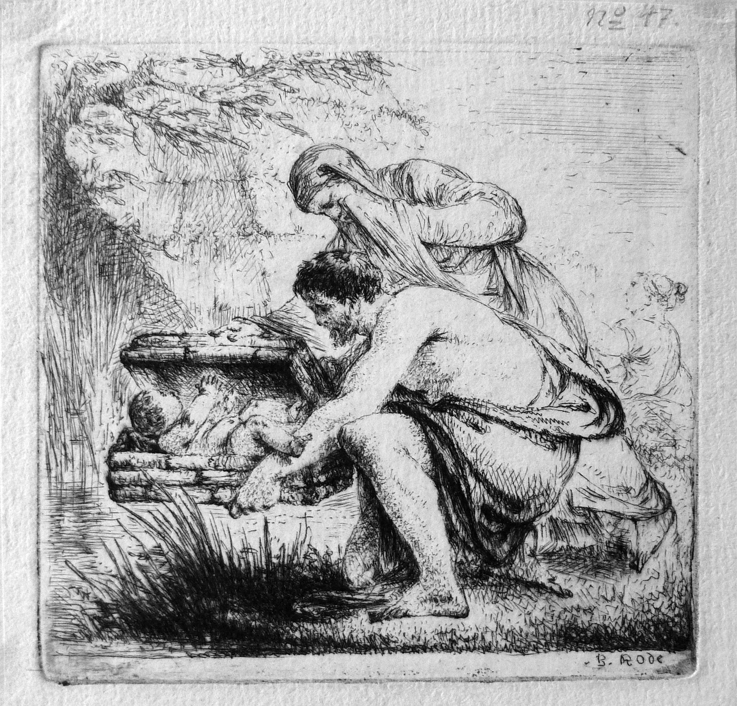 Moses Set Out on the Nile in a Reed Basket. Engraving by Bernhard Rode, ca. 1775.